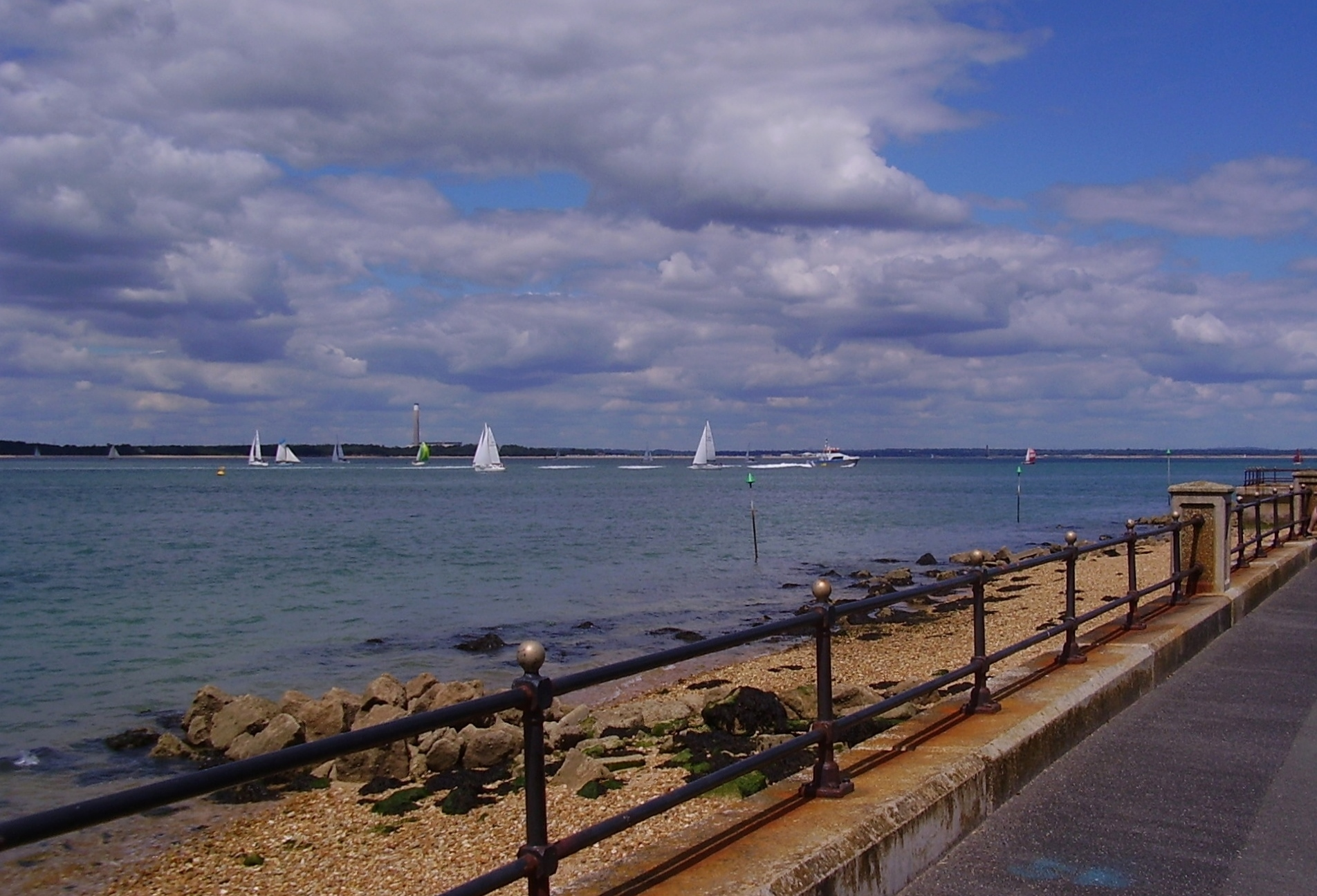 The Solent; view from Gurnard, Isle of Wight, UK